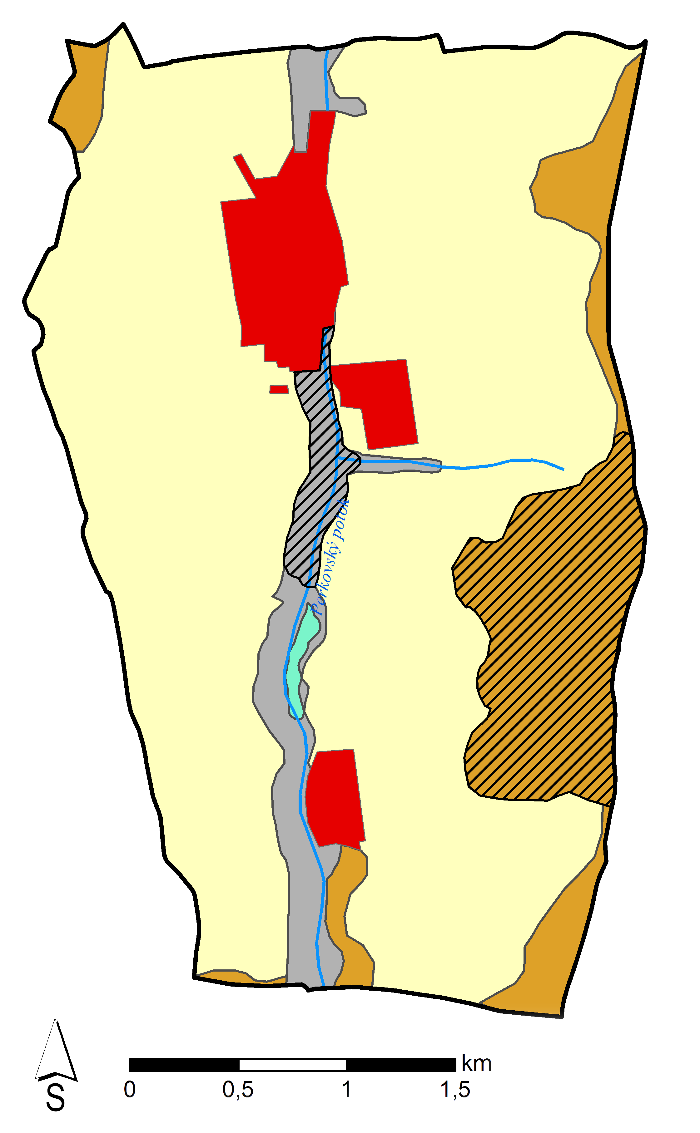 Soils of Šurianky village Pôdne typy regozem a hnedozem hnedozem typická čiernica glej Pôdne druhy hlinitá // ílovito-hlinitá zastavaná plocha